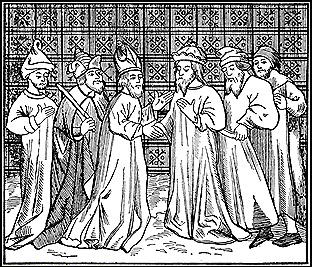 French rabbis of the Middle Ages. Category:Jewish Encyclopedia images